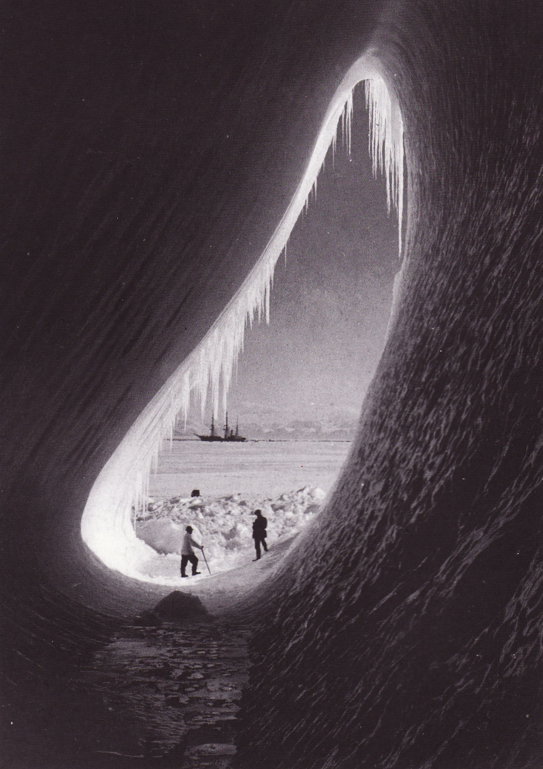 Taylor and Wright of the Terra Nova Expedition at the entrance of an ice grotto near Cape Evans. The ship Terra Nova is anchored in the background.